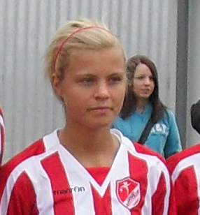 Rachel Daly in Lincoln Ladies kit